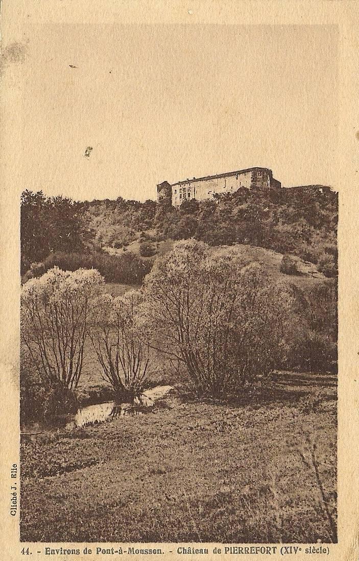 Old post card of Martincourt (Meurthe-et-Moselle ; France). The brook under the castle of Pierrefort.